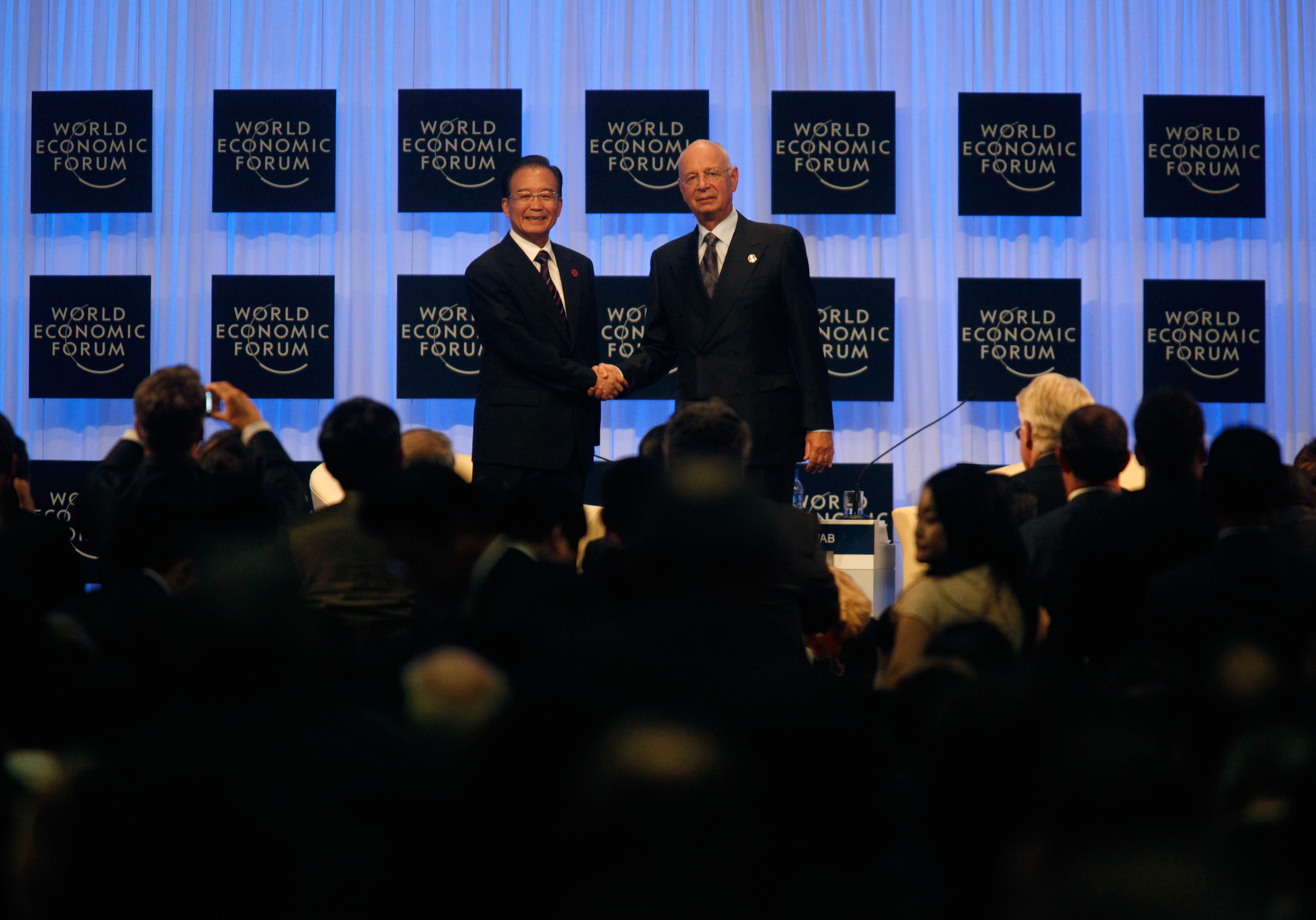 TIANJIN/CHINA 13SEP10 - Wen Jiabao, Premier of the People’s Republic of China and Klaus Schwab, Founder and Executive Chairman, World Economic Forum, shake hands at the end of the Opening Plenary of the Annual Meeting of the New Champions in Tianjin, China, September 13, 2010. Copyright World Economic Forum /Adam Dean